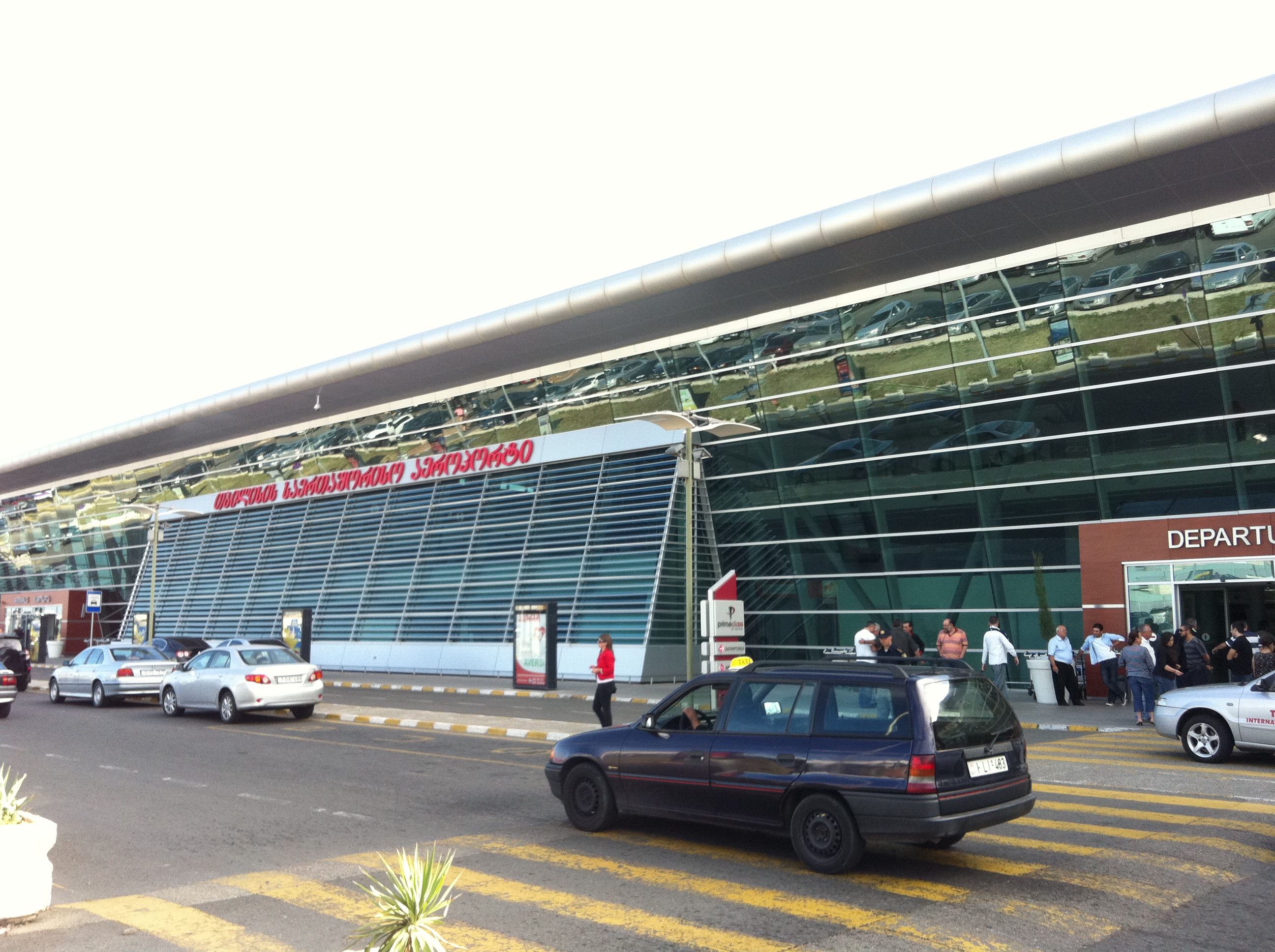 Tbilisi Airport, Georgia